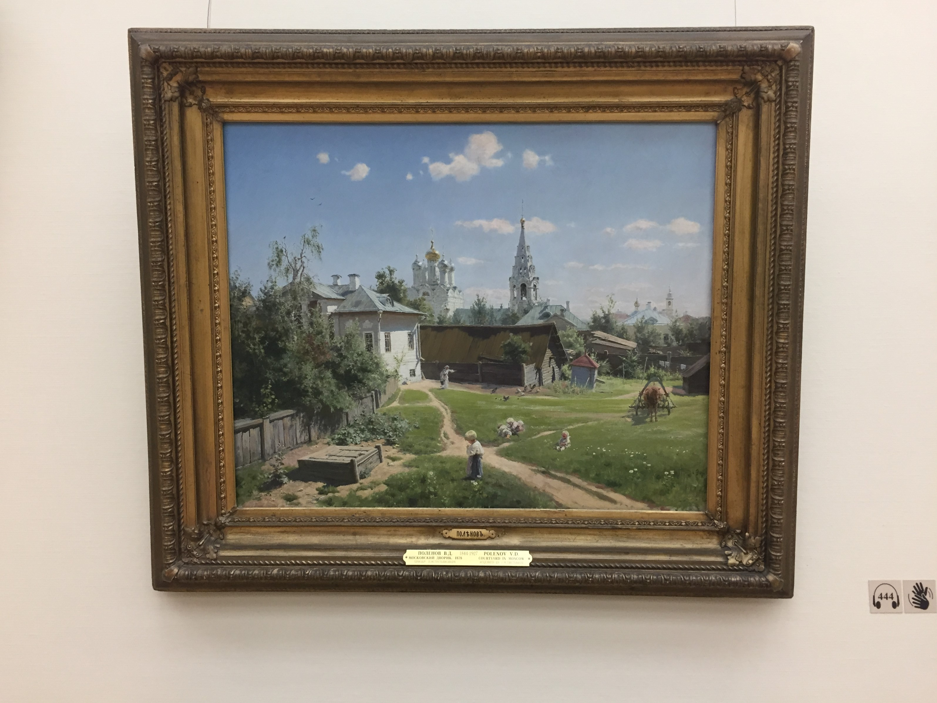 "Moscow courtyard" (painting by by Vasily Polenov, 1878) in the State Tretyakov gallery